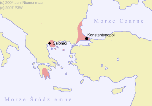 Byzantine "Empire", ca 1400 - Polish version